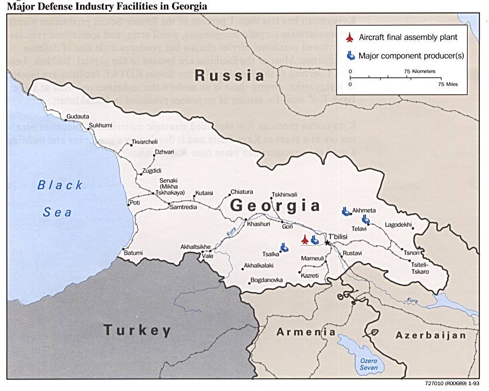 Defence industries of Georgia in 1993: there is an aircraft final assembly plant in Tblisi as well as component plants in Tblisi, Tsalka, Akhmeta, and Telavi.